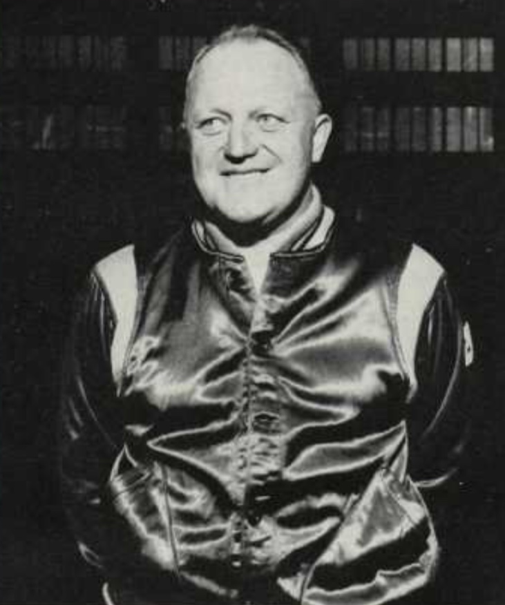 Georgetown University basketball coach Elmer Ripley from the 1943 “Domesday Booke” yearbook.